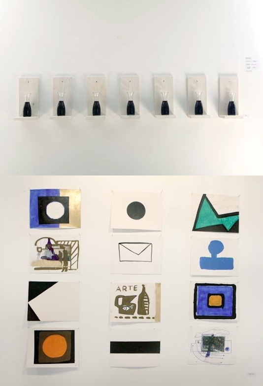 Orlando Mohorovic Radovi